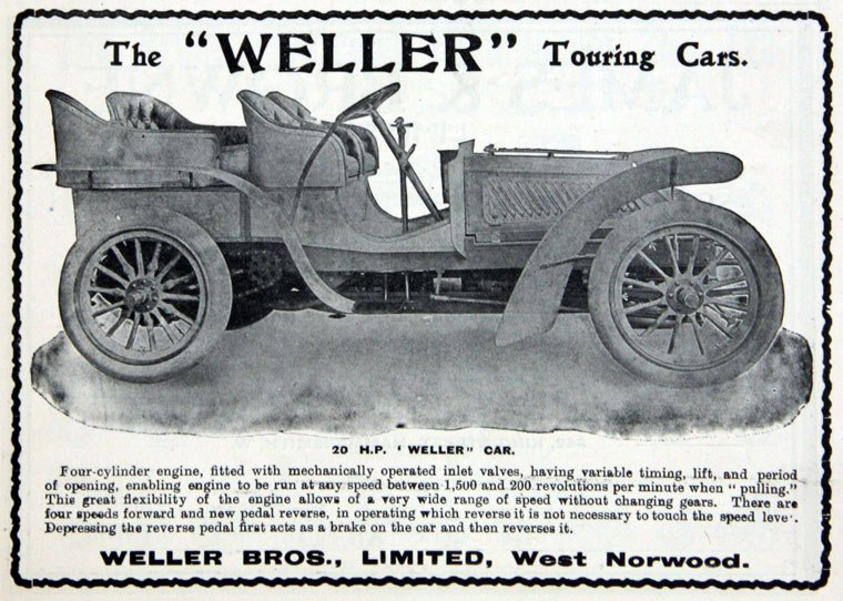 Weller Four Seat Touring Automobile 1903 advertisement